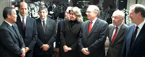 The Ambassadors, the Chargé d'affaires a.i. of the Delegation, the Deputy Heads of Mission, and the Political Counselor met Minoru Yanagida, Minister of Justice, at the Ministry of Justice in Chiyoda Ward, Tōkyō Metropolis on October 22, 2010.